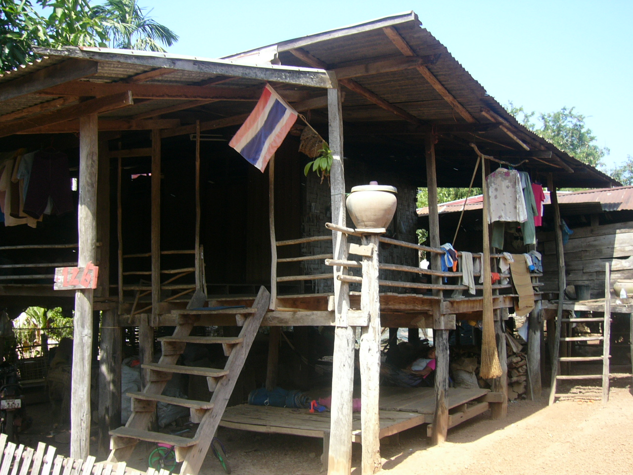 Simple wooden building, seen in Isan Region near Si Songkhram, Thailand